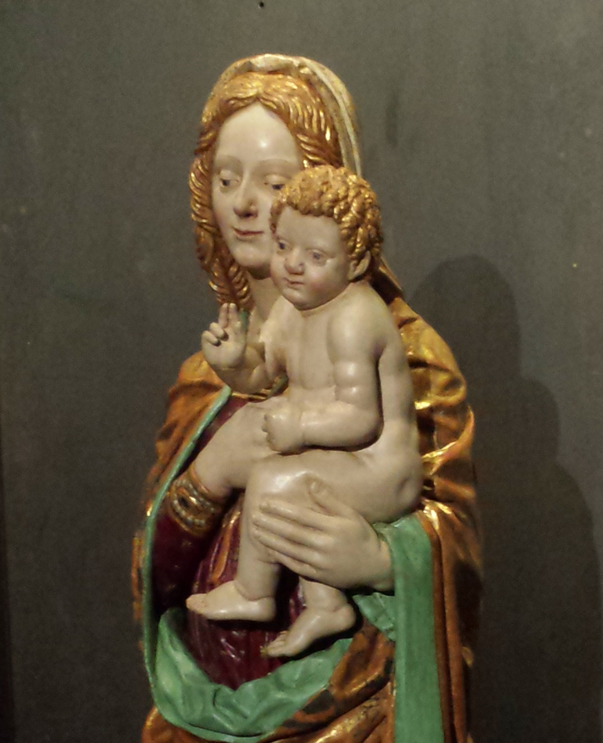 Pietro Bussolo "Madonna standing with Jesus Child", circa 1490/95, Carved wood, painted and gilded, Nese di Alzano Lombardo, Sanctuary of the Madonna del Giglio